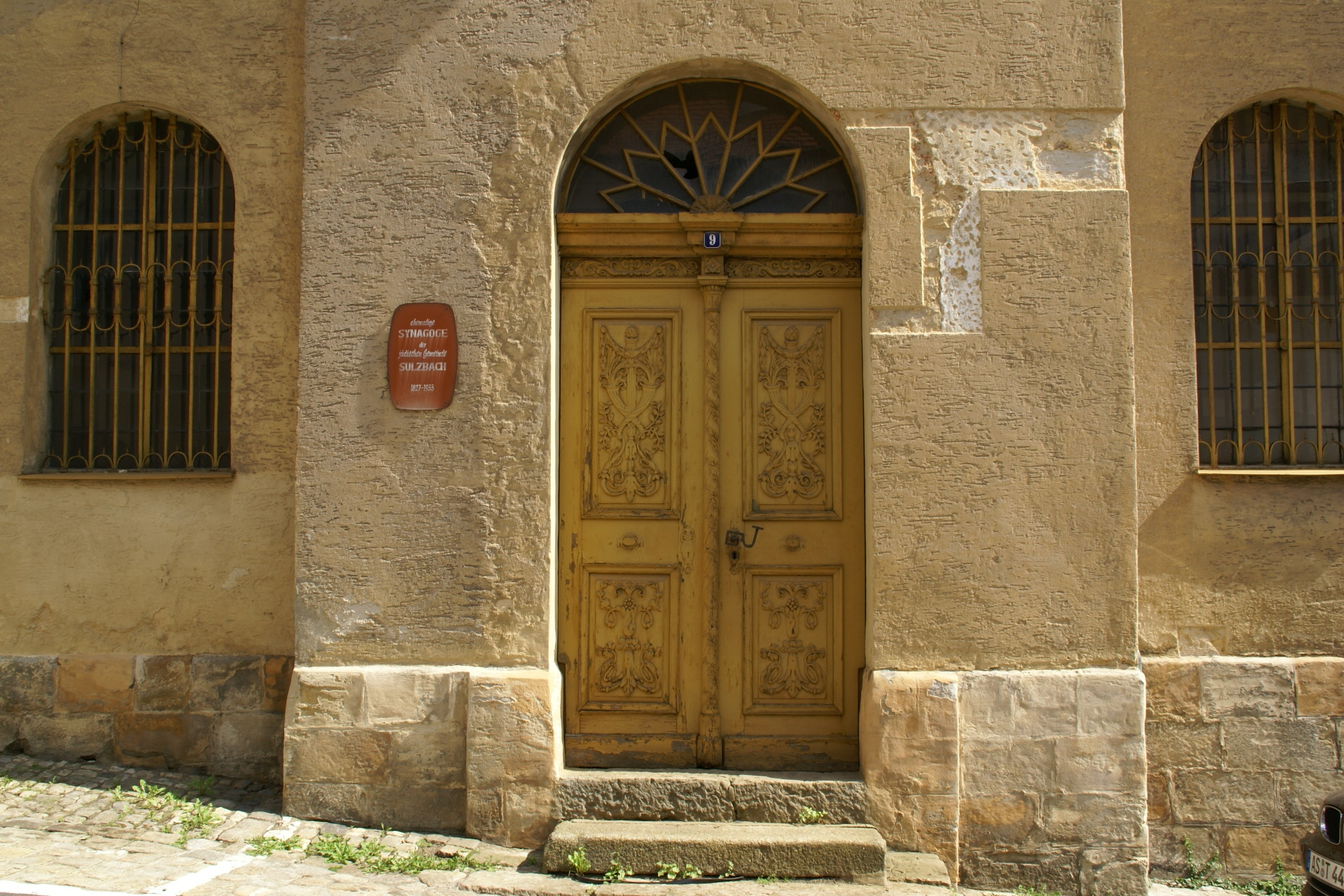 Synagogue in Sulzbach-Rosenberg (Germany)